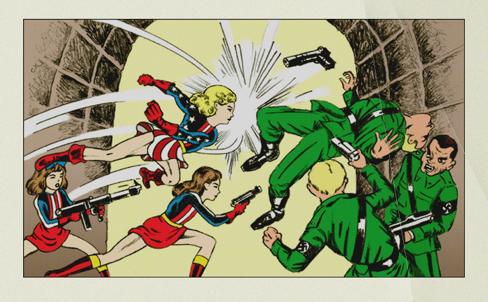 Mock comic book panel depicting three young superheroines battling Nazi soldiers. Images such as this were an effective form of propaganda during World War Two, portraying American forces triumphing over stock Axis villains. Educational purpose: to illustrate terms such as propaganda, superhero, comic book, etc. Artwork by Simon Kirby, released under cc-by-sa 3.0. Author agrees that Commons is not censored and that international wikimedia projects have the right to use this images. This file, which was originally posted to was reviewed on 29 September 2017 by the administrator or reviewer Leoboudv, who confirmed that it was available there under the stated license on that date.